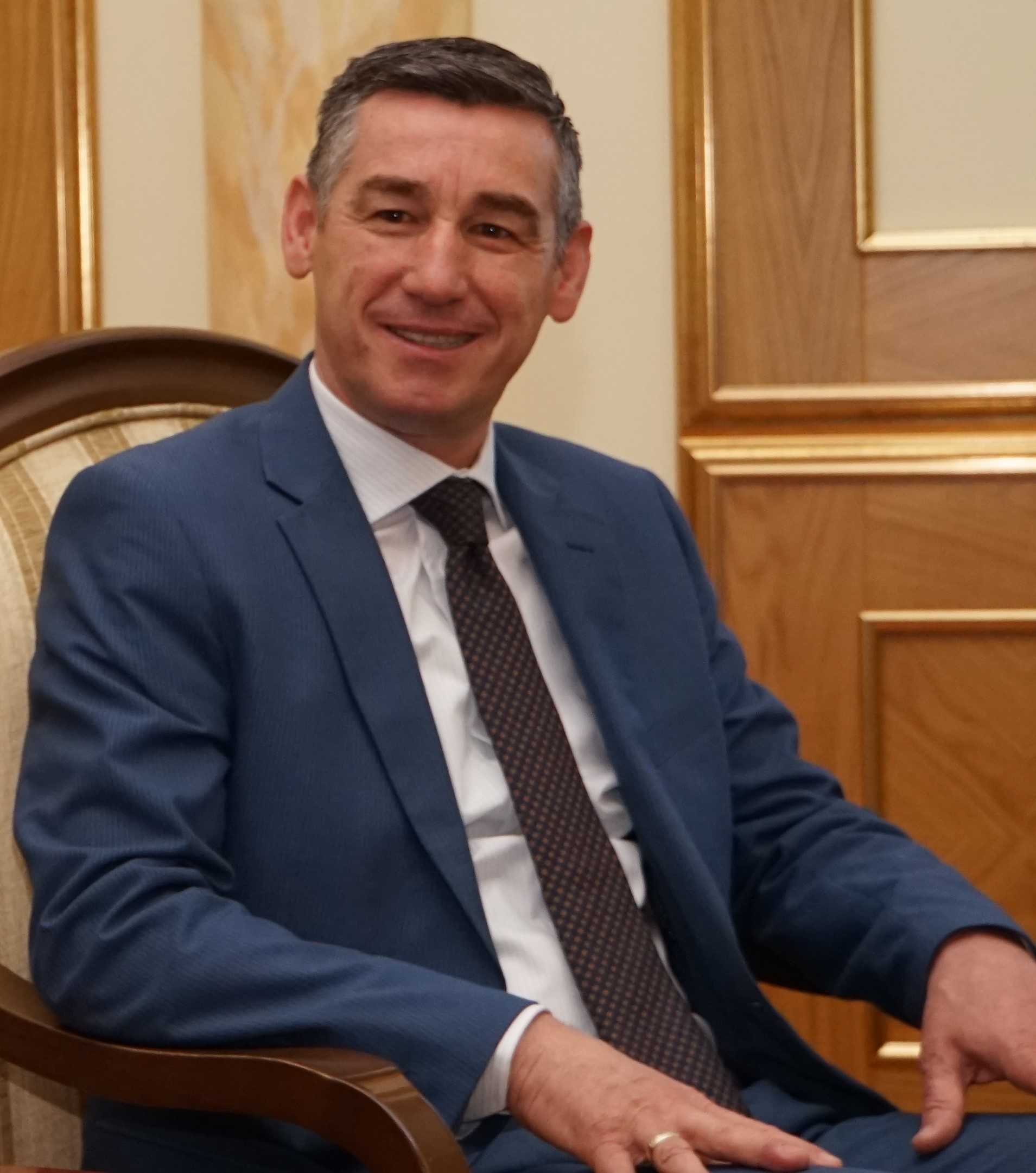 Cropped photograph of Kadri Veseli meeting with the Estonian Foreign Ministry in May 2017